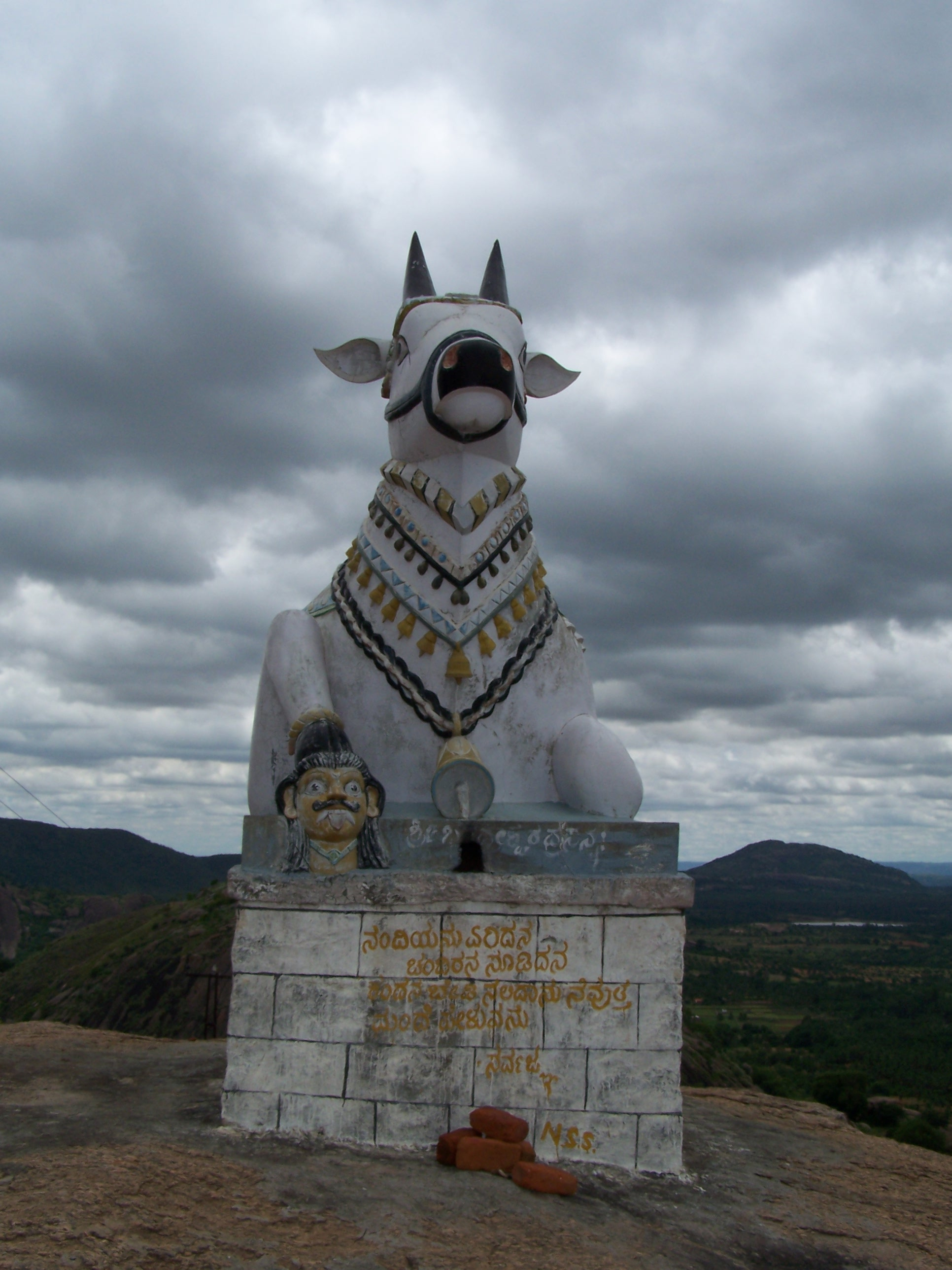 White Nandi with a head at its hoof.Don't mess with Nandi